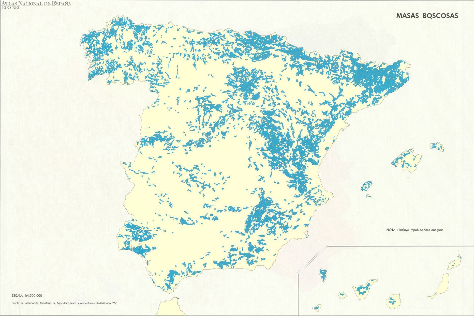 Forests in Spain according to the National Institute of Geography